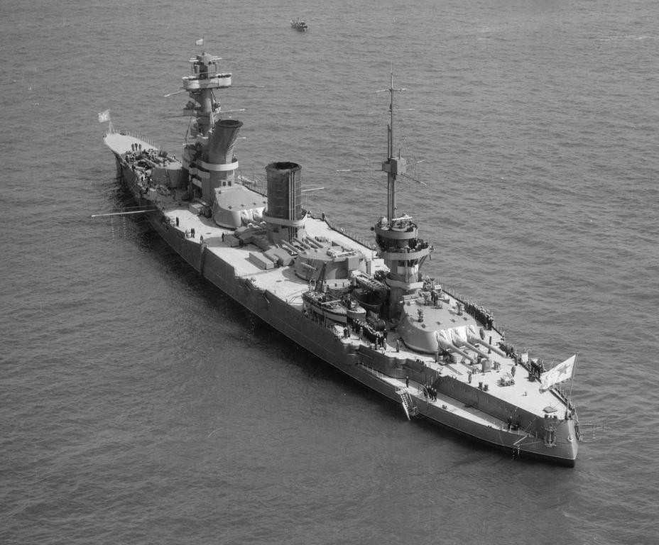 Aerial photograph of Soviet battleship Marat off Spithead for the 1937 Fleet Review